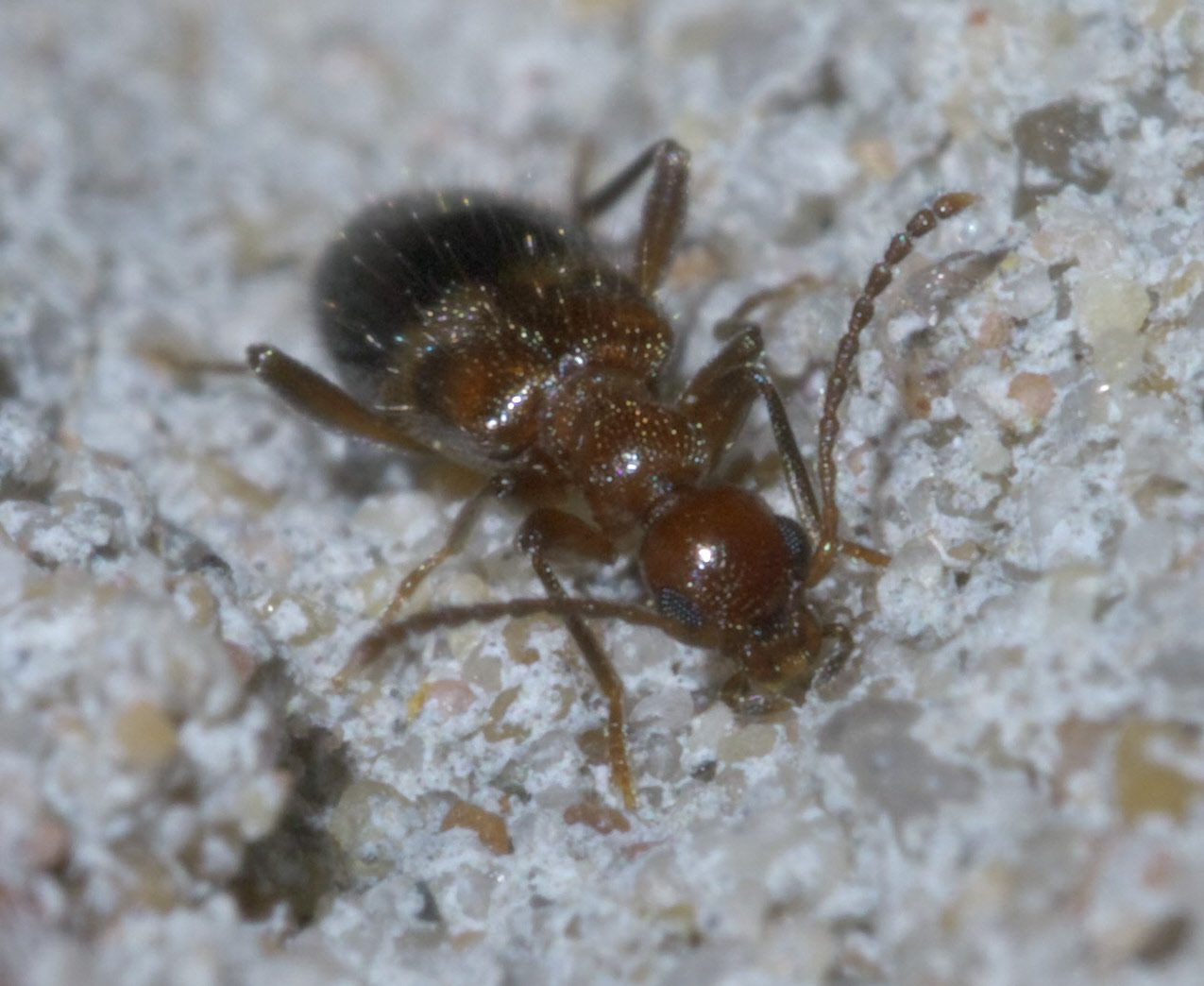 Malporus cinctus, Family: Antlike Flower Beetles, ID Confidence: 98